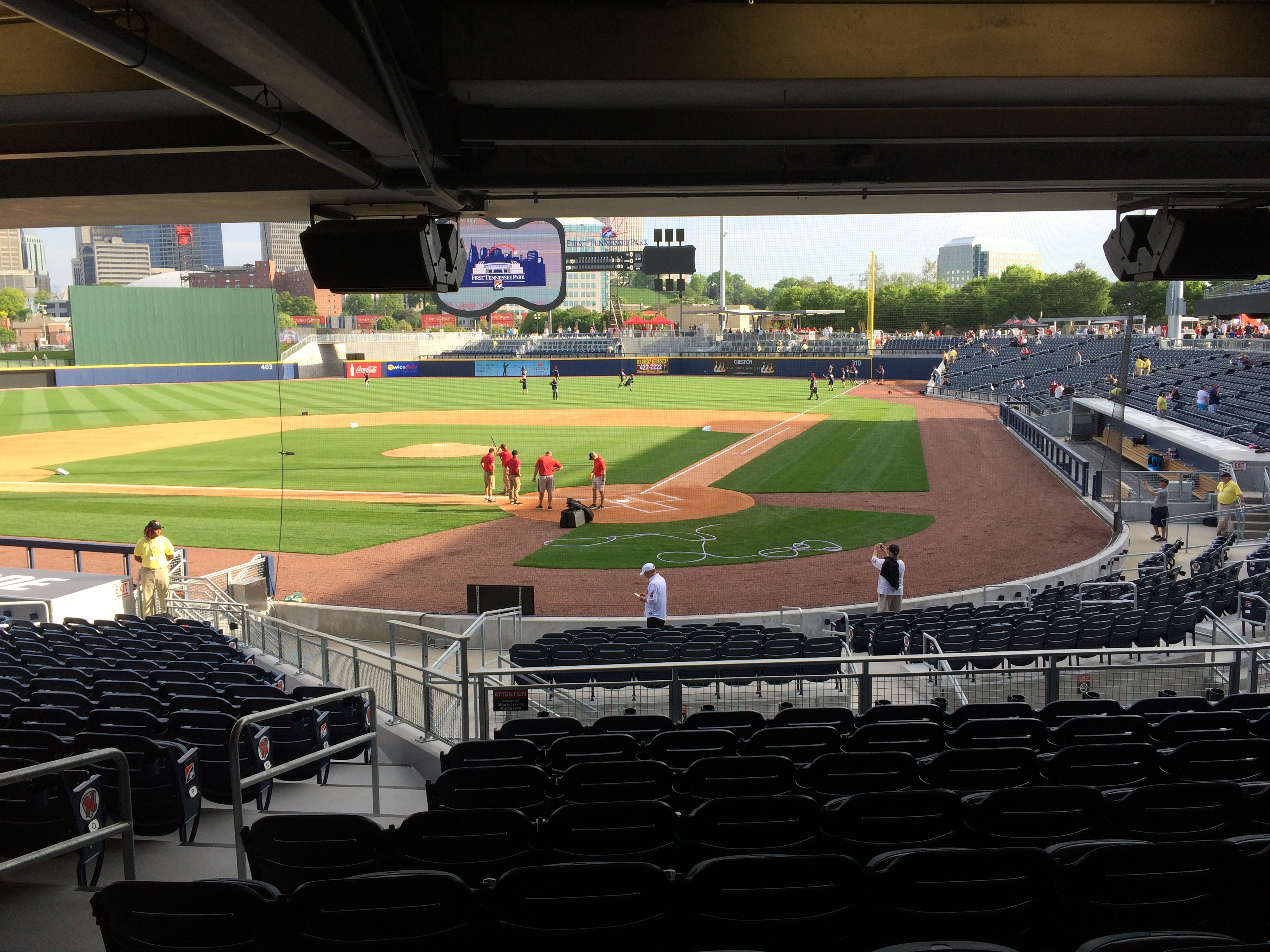 A view of the field from the concourse at First Tennessee Park on April 17, 2015, the park's inaugural game